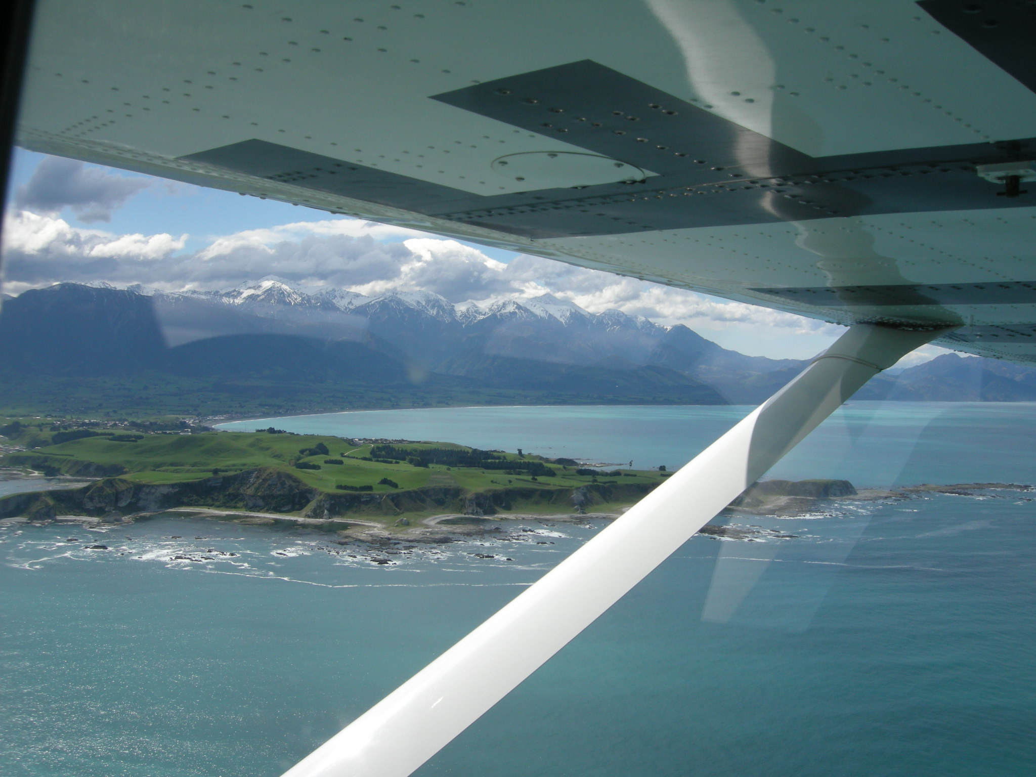 View of Kaikoura Peninsula.